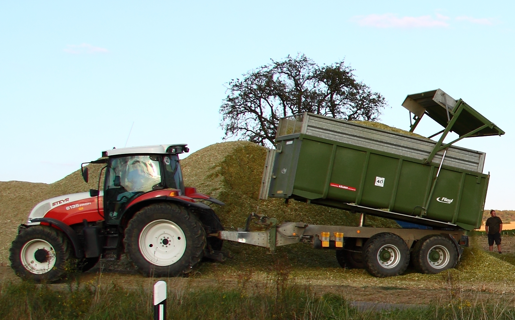 Harvesting silage maize in Stein, Baden-Württemberg, Germany – Steyr tractor 6135 Profi with Fliegl trailer